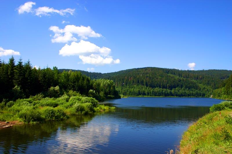 Czernańskie Lake on Vistula River in Wisła in Beskid Śląski (Poland)